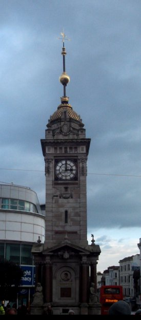 Clock Tower, Brighton, England. The time ball is in the middle of its hourly descent.